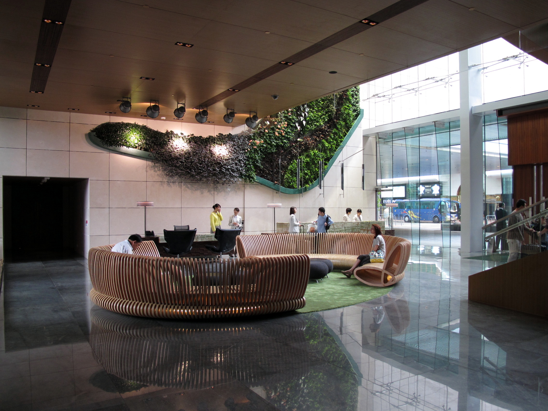 唯港薈 Hotel ICON Lobby